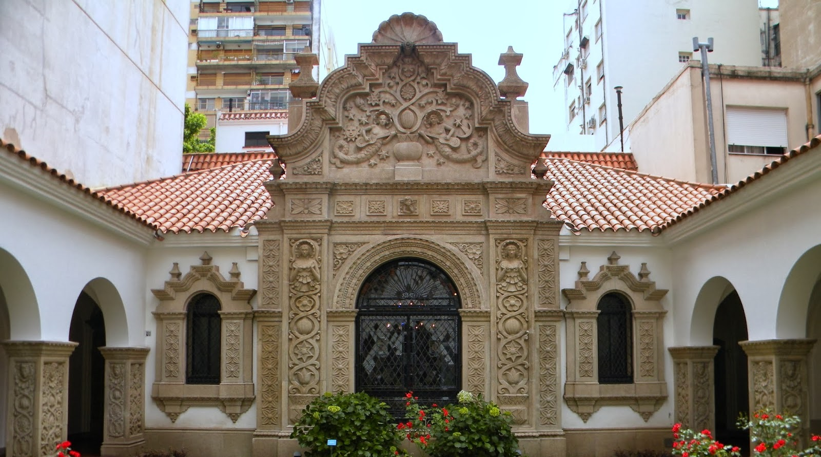 museo casa ricardo rojas